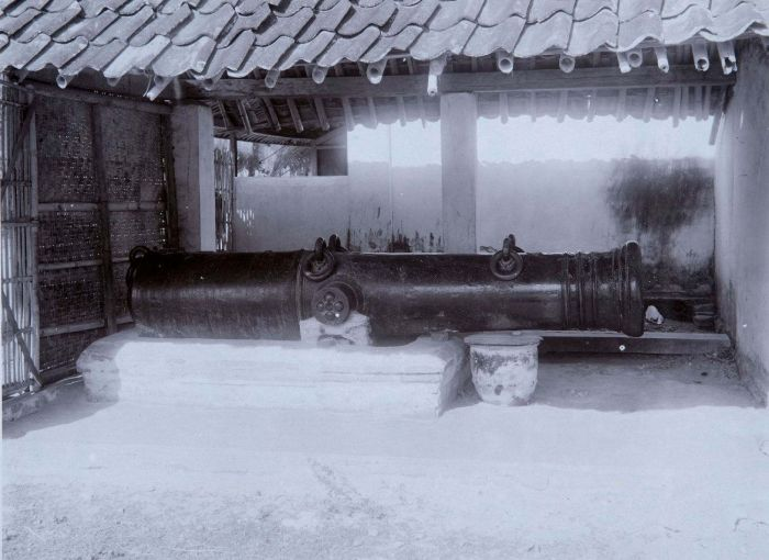 Holy cannon, 'Ki Amuk'